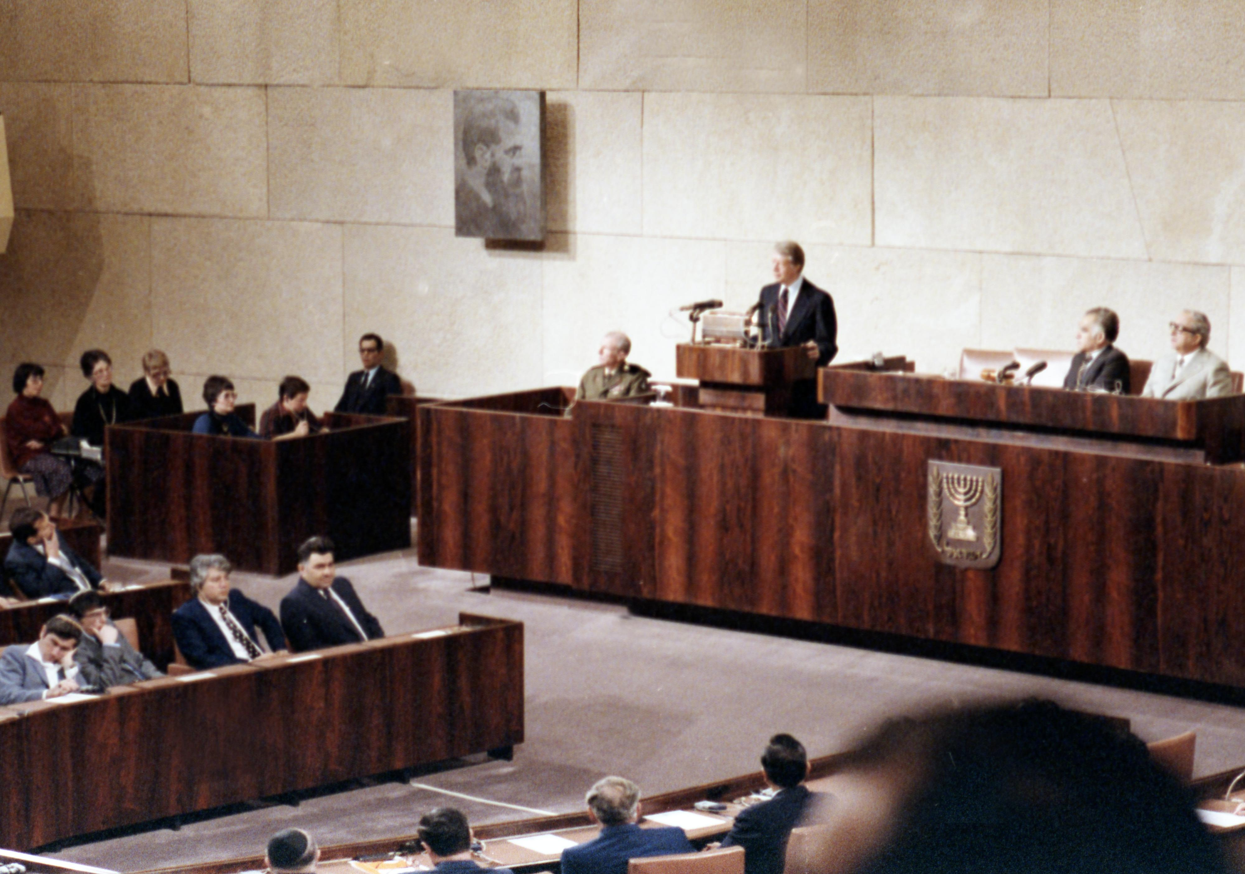 Photo courtesy of Jimmy Carter Library